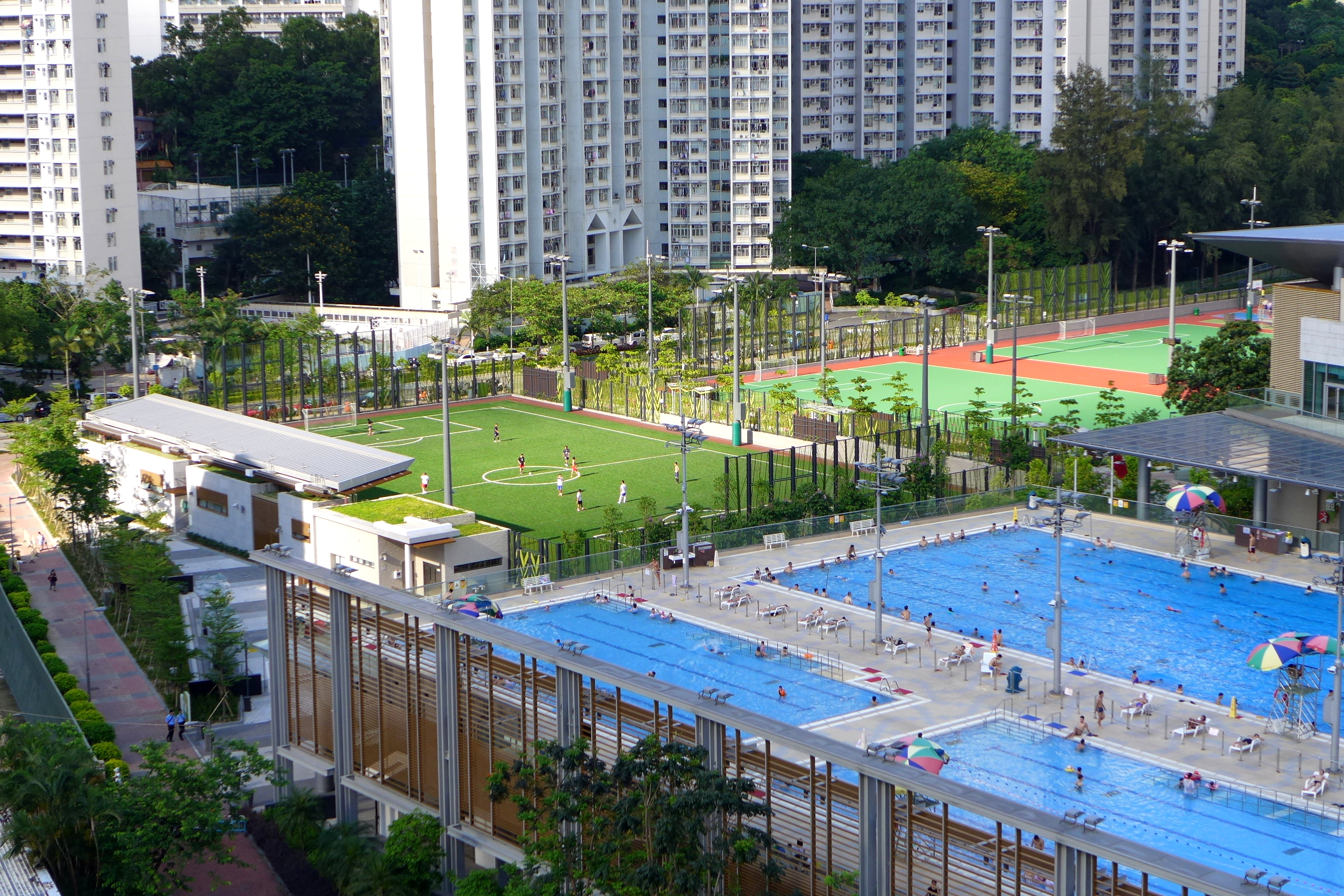 Kwun Tong Recreation Ground